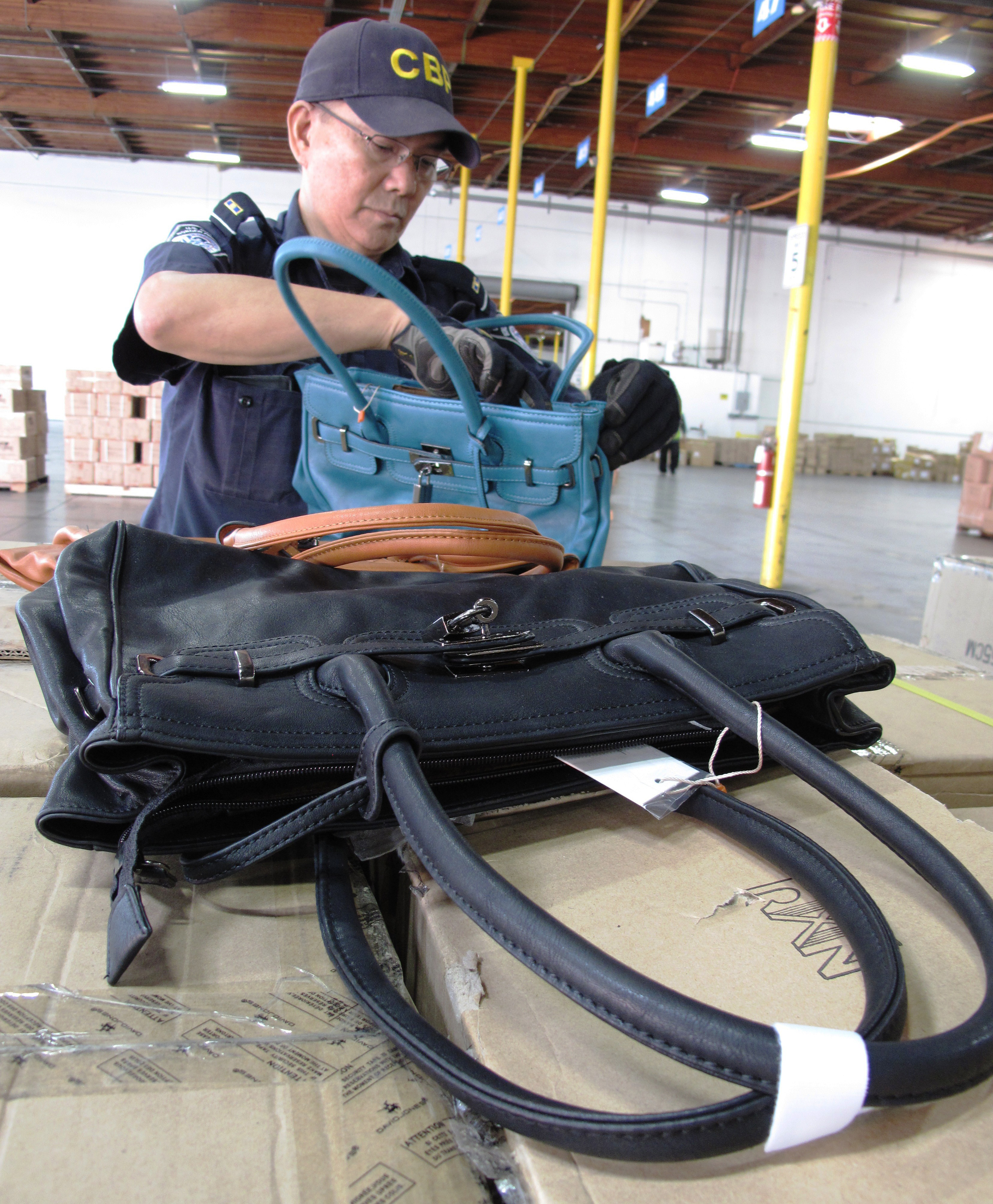 February 2013: Los Angeles - CBP officers seized 1,500 high-fashion leather handbags bearing counterfeit “Hermès” listed trademark. If genuine, the seized handbags had an estimated manufacturer’s suggested retail price of $14,100,000. Photo provided by: Jaime Ruiz